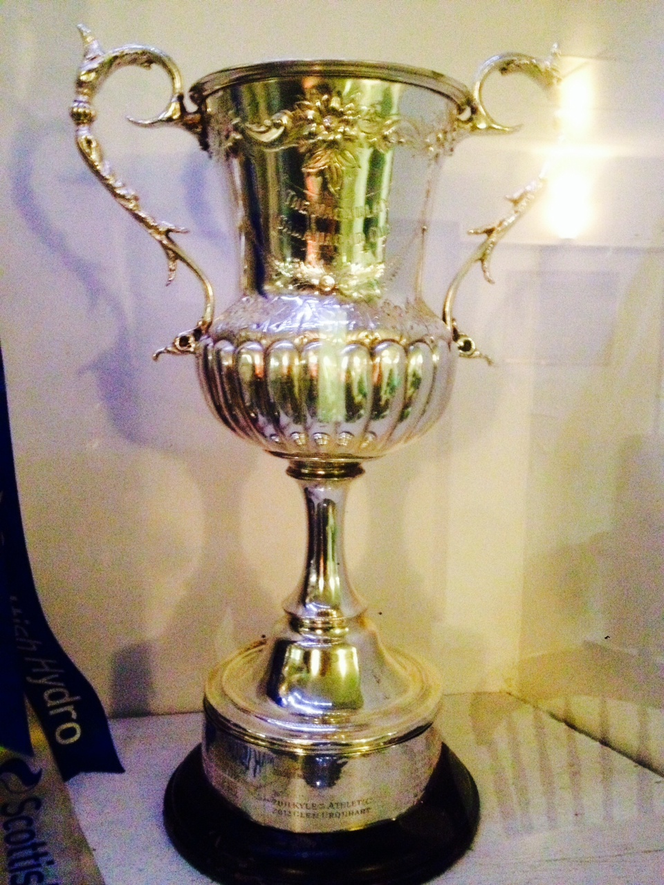 The MacAulay Cup - The senior trophy for North/South in Shinty, taken in the Balavil Hotel, Newtonmore